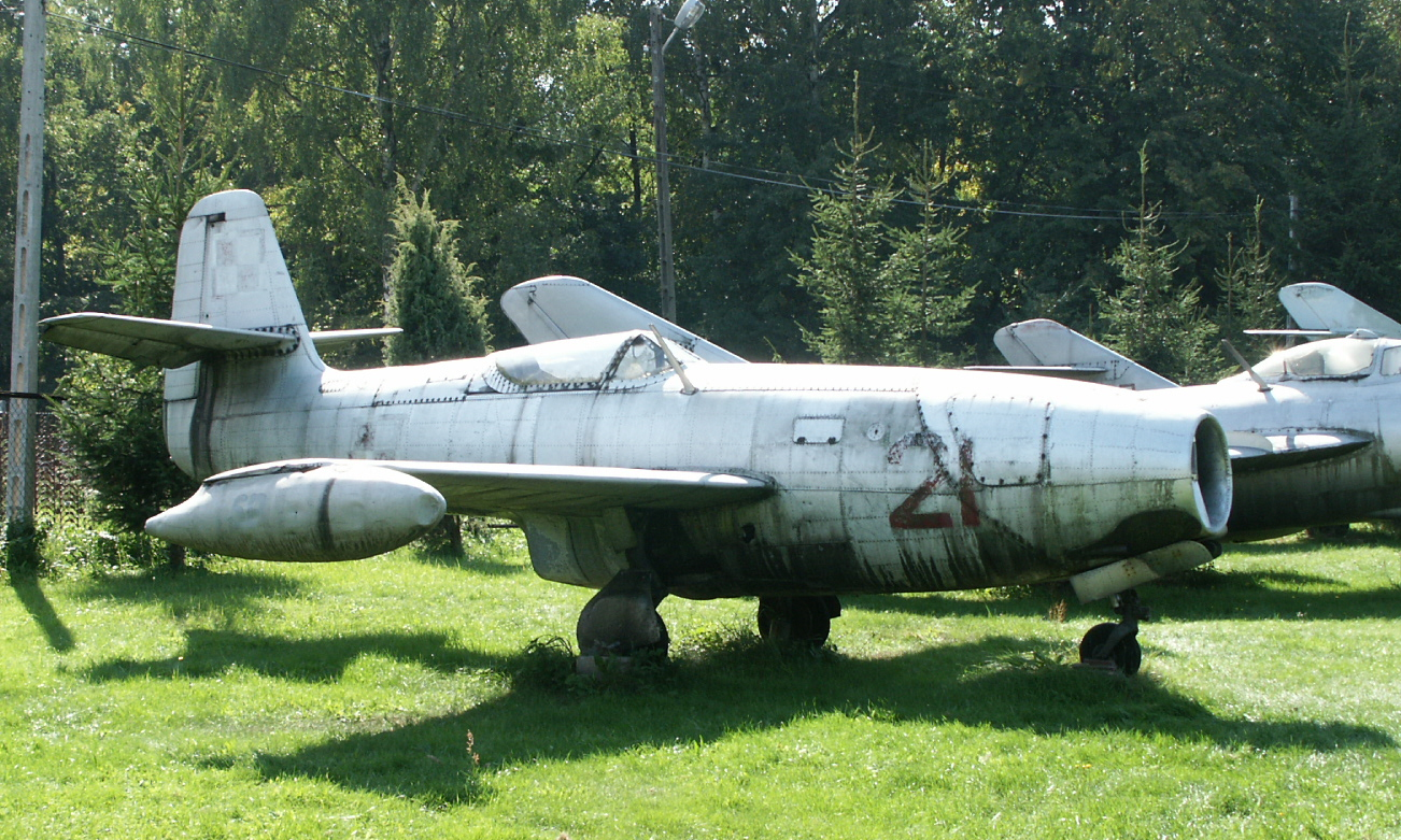 Yak-23 fighter in Muzeum Orla Bialego (White Eagle Museum) in Skarzysko-Kamienna, Poland.